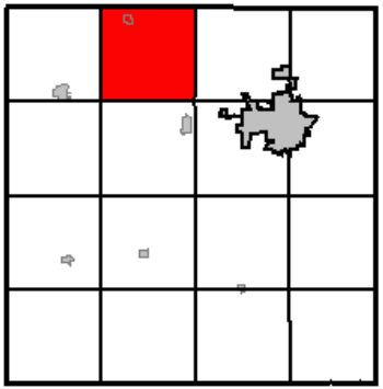 Map of Adams County, Nebraska highlighting Verona Township; created with the GIMP. Made by User:Acntx.